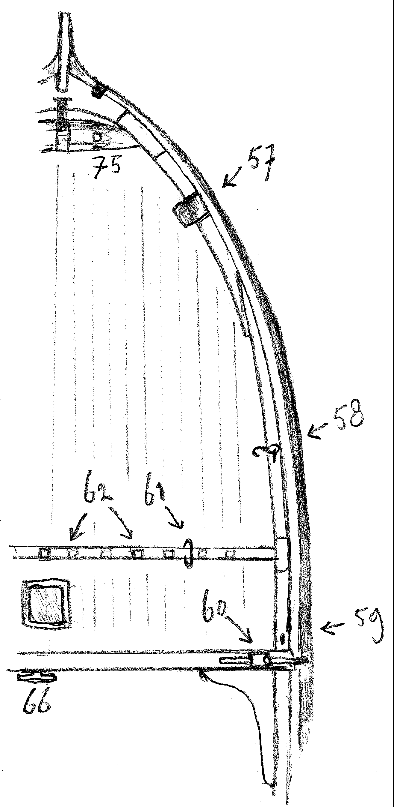 Foredeck layout of Volendammer kwak (traditional dutch fishing vessel) Pencil drawing, 2003 Author: Henk de Boer